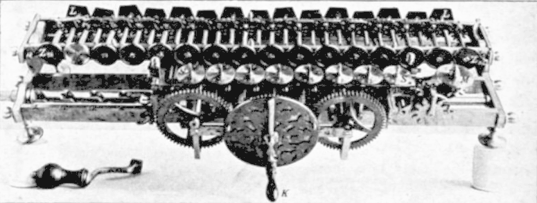 Photo of the mechanism of the 'Stepped Reckoner' a prototype mechanical calculator invented by German mathematician Gottfried Wilhelm Leibniz in 1671 and completed in 1694. About 67 cm (26 in.) long. This was the first calculator able to perform all the elementary operations: addition, subtraction, multiplication, and division. The housing is removed to show the mechanism. It consists of two parallel parts: the 16 digit accumulator section to the rear, and the 8 digit input section to the front. The input section is mounted on rails, and can be moved parallel to the accumulator with a crank and worm gear on the left end (the crank is removed and lying in the foreground), to align the digits of the operand with different digits of the accumulator. The 16 vertical wheels on the front of accumulator section are the output dials, with numbers 0-9 around their circumference that appear in windows in the top plate. The 8 shiny horizontal disks on the input section in front are the operand dials, with knobs for setting the operand into the machine. The crank on the front performs the calculation. For more information see James Redin (2007) World of Calculators, A Brief History of Calculators Part 1: The Age of the Polymaths.